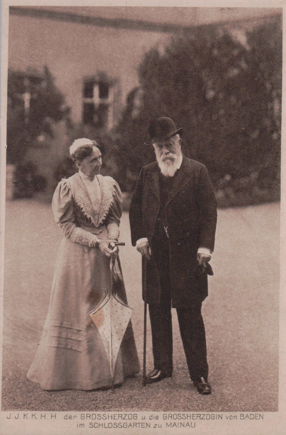 Grand Duke Friedrich I of Baden and Grand Duchess Louise in Mainau